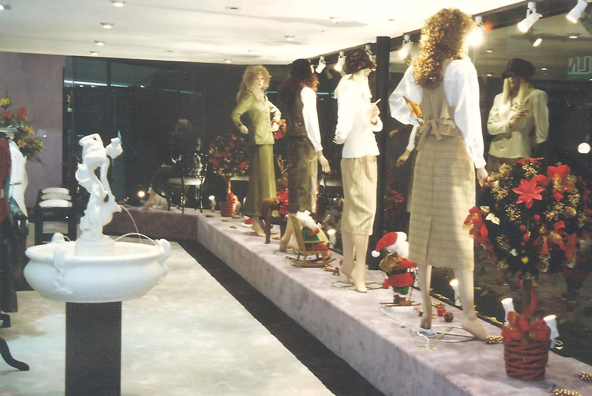 Carla Rigg Fashion Design House